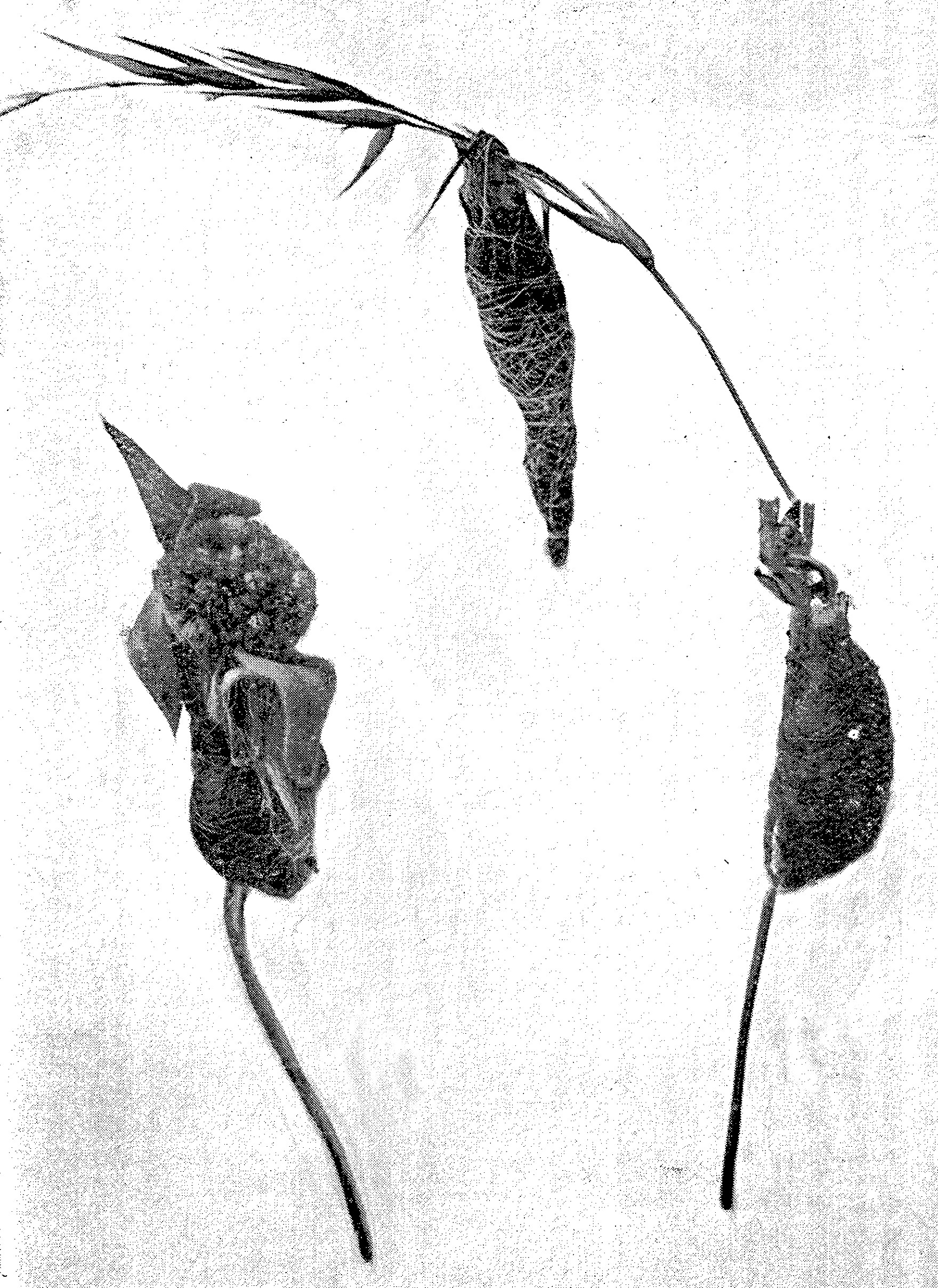 Austracantha minax egg sacs attached to a grass stalk and a flower